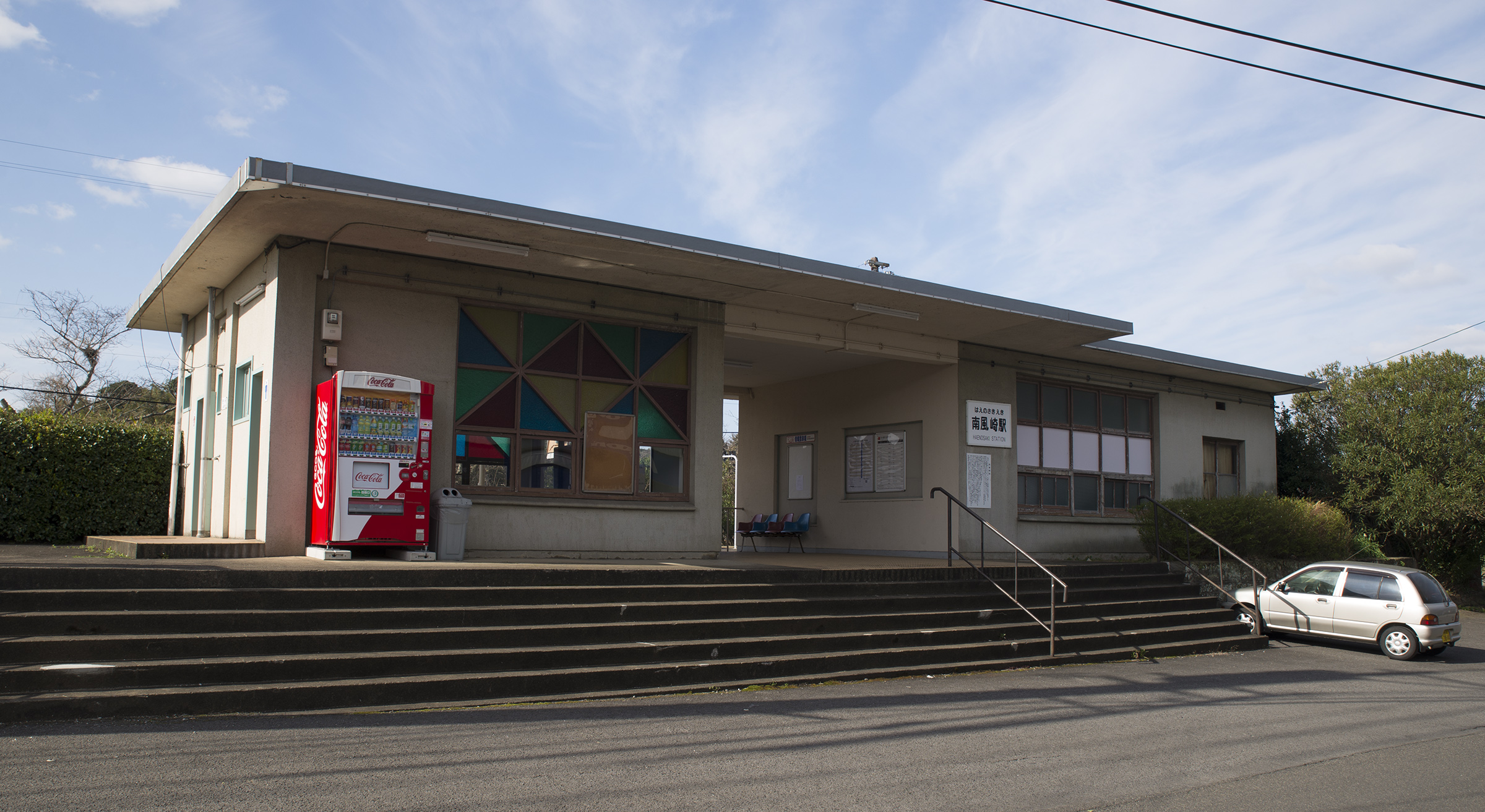 Haenosaki Station on the Kyushu Railway Company (JR Kyushu) Omura Line